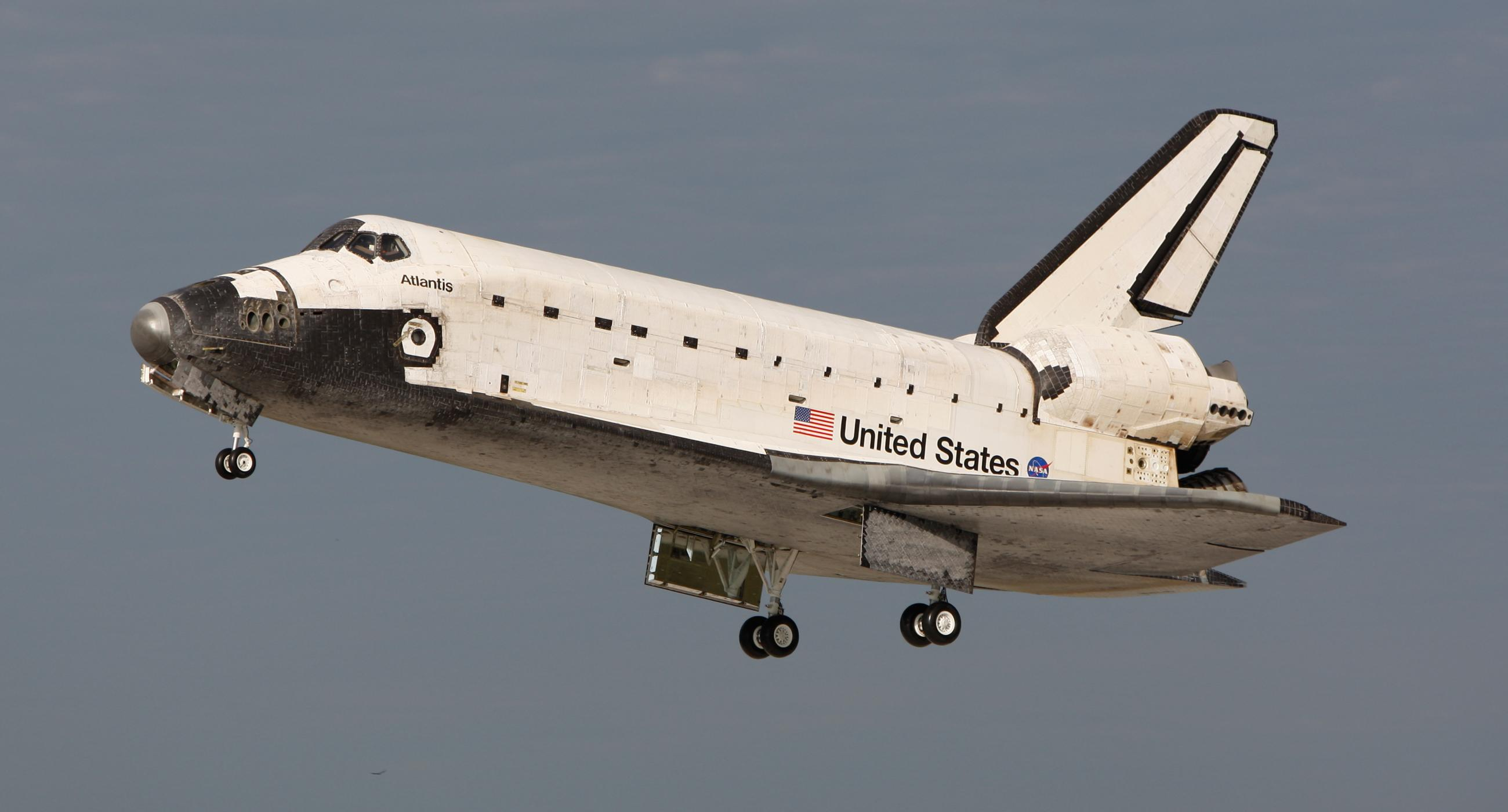 With wheels down, space shuttle Atlantis approaches a landing on Runway 15 of the Shuttle Landing Facility at NASA's Kennedy Space Center after a nearly 5.3 million mile round trip to the International Space Station. The shuttle landed on orbit 202 to complete the 13-day STS-122 mission. Main gear touchdown was 9:07:10 a.m. Nose gear touchdown was 9:07:20 a.m. Wheel stop was at 9:08:08 a.m. Mission elapsed time was 12 days, 18 hours, 21 minutes and 44 seconds. During the mission, Atlantis' crew installed the new Columbus laboratory, leaving a larger space station and one with increased science capabilities. The Columbus Research Module adds nearly 1,000 cubic feet of habitable volume and affords room for 10 experiment racks, each an independent science lab.